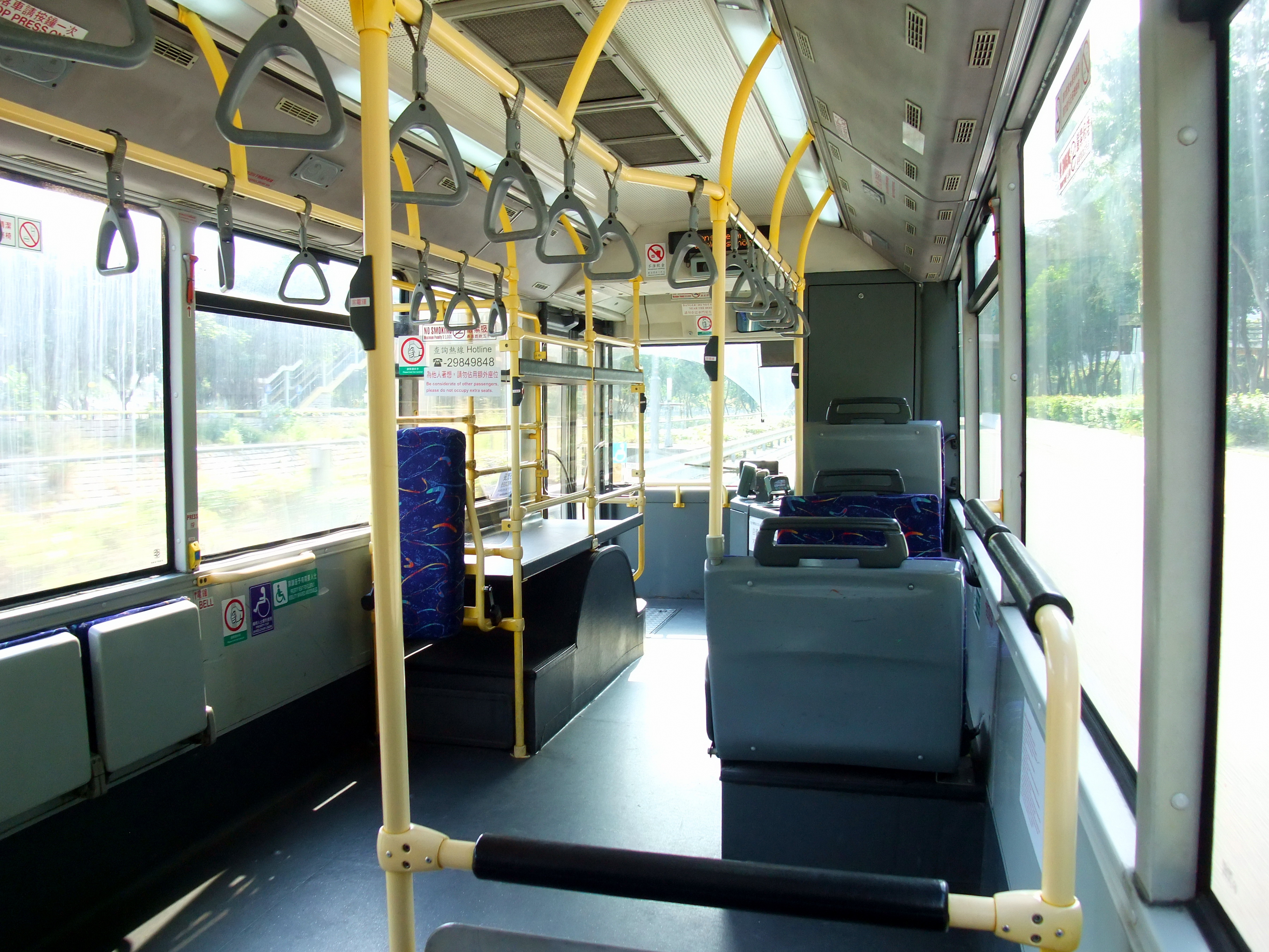 Interior of a New Lantao Bus Route 37 bus, Hong Kong.